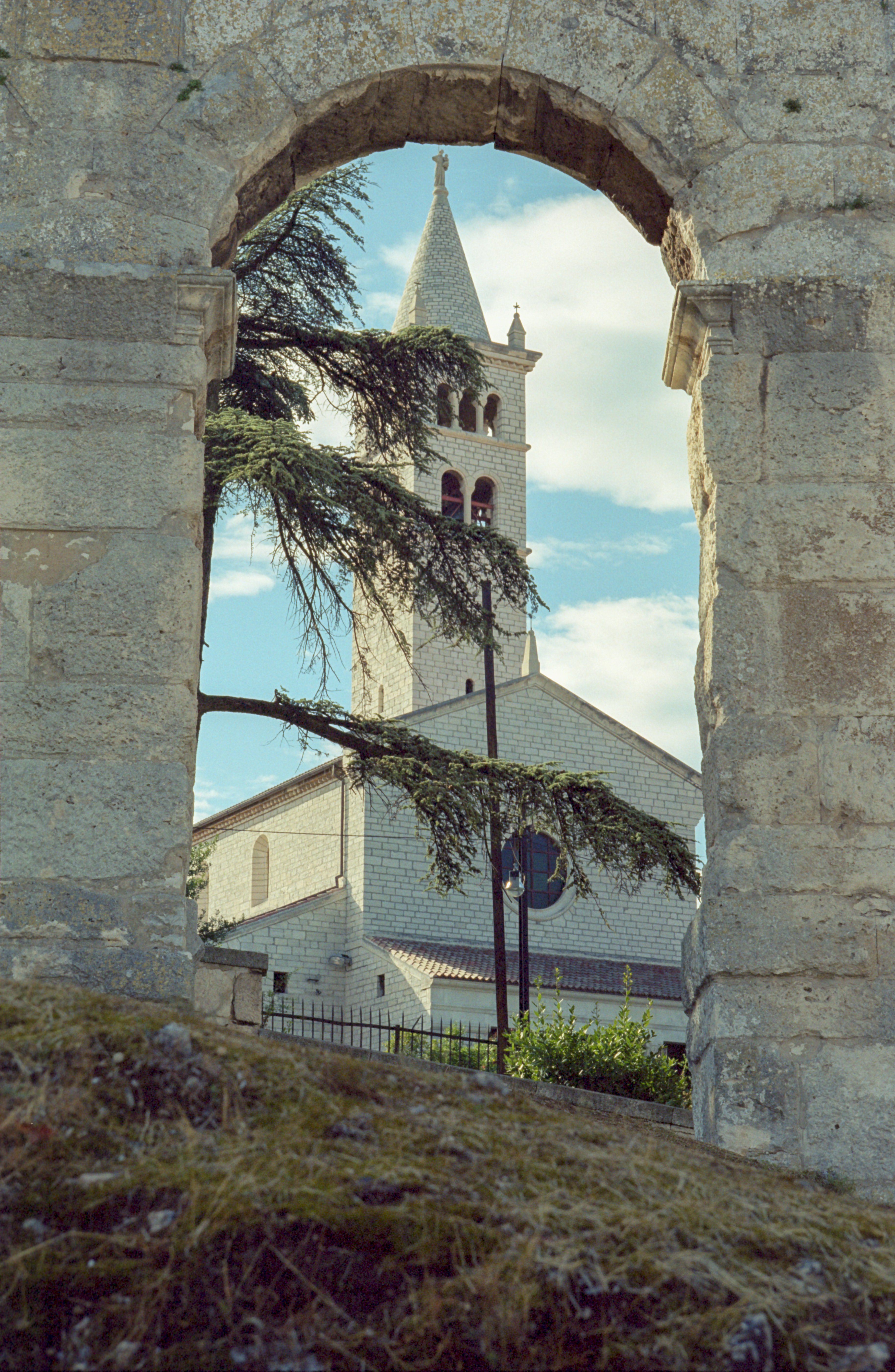 The Ancient Roman amphitheatre in Pula, Istria region, (Croatia)